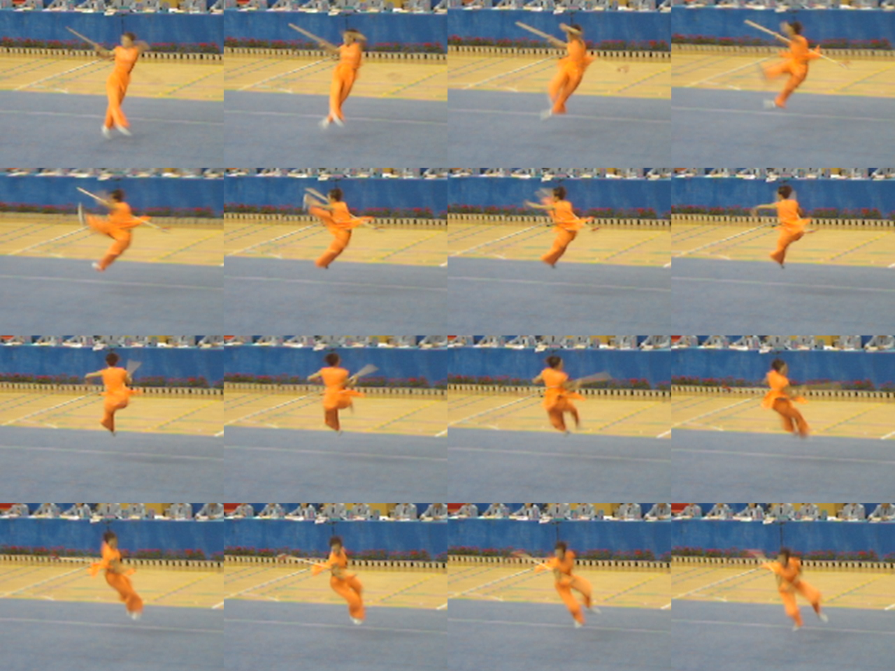 Gun (staff) event at the 10th All China Games.